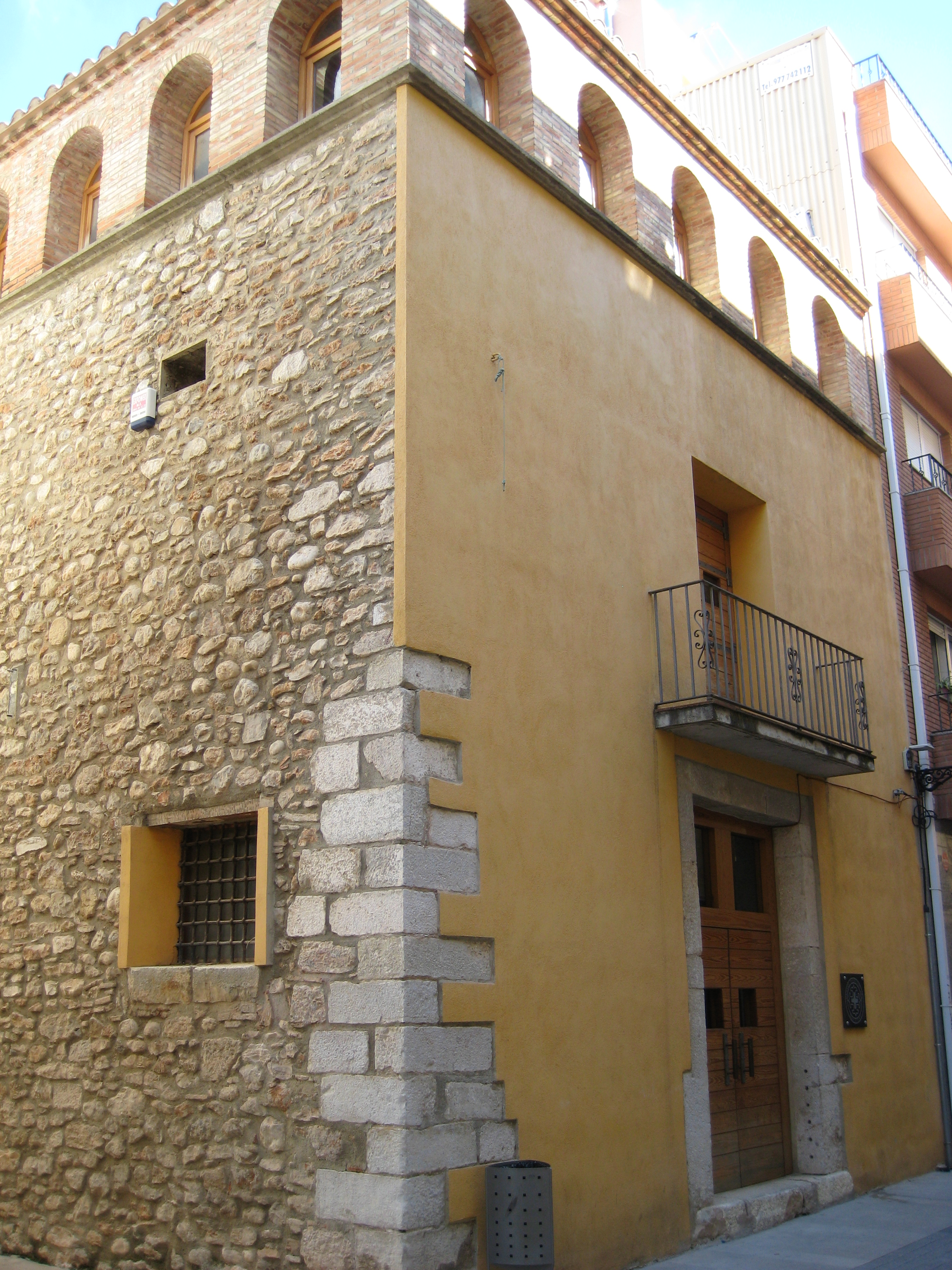 Ancien prison, Benicarló (Spain)